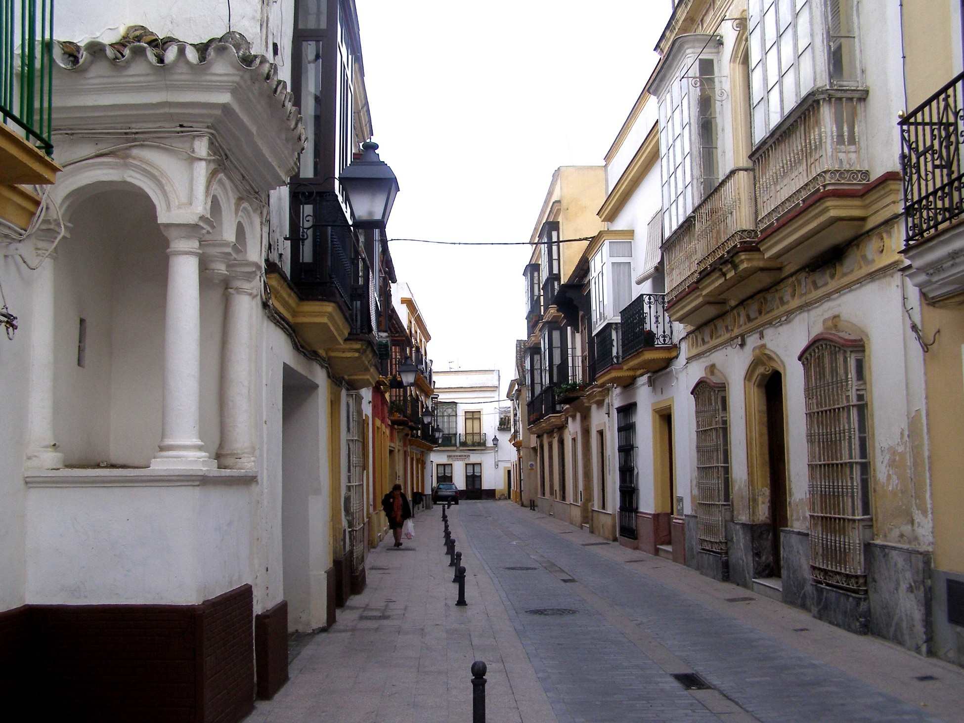 Bizcocheros St. Jerez